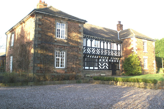 Mawdesley Hall in Mawdesley, Lancashire. Hidden treasure. Discovered by mounting the steps off the road into the village.